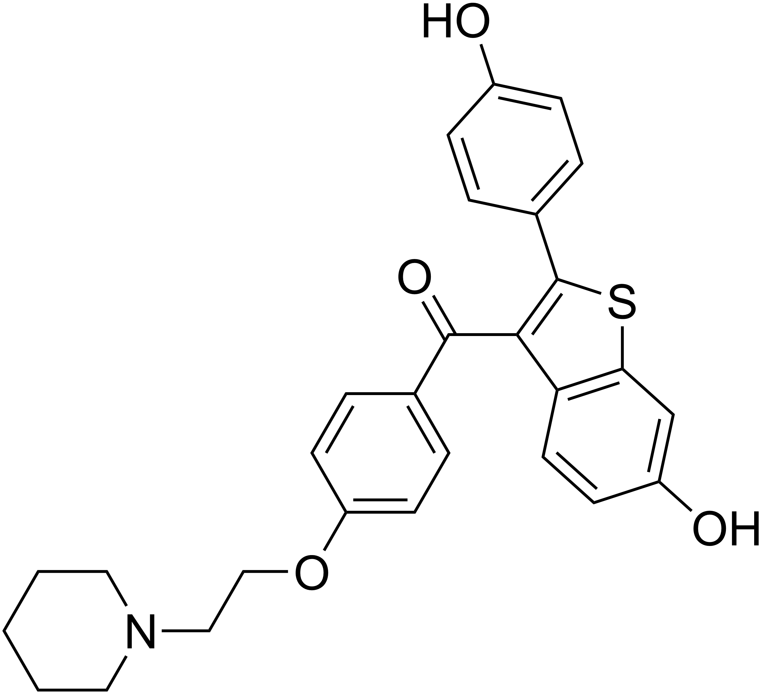 Structural formula of raloxifene